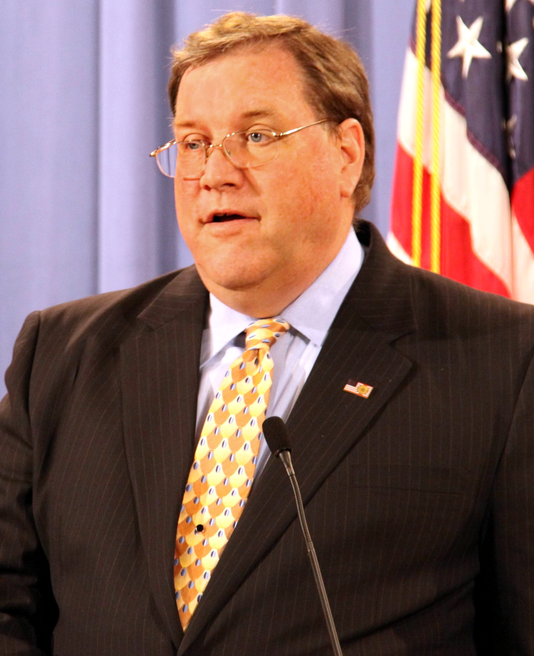 FBI Executive Assistant Director Thomas J. Harrington of the Criminal, Cyber, Response, and Services Branch (right) and Assistant Attorney General Lanny A. Breuer of the Department of Justice’s Criminal Division at a press conference announcing indictments in a mortgage fraud scheme